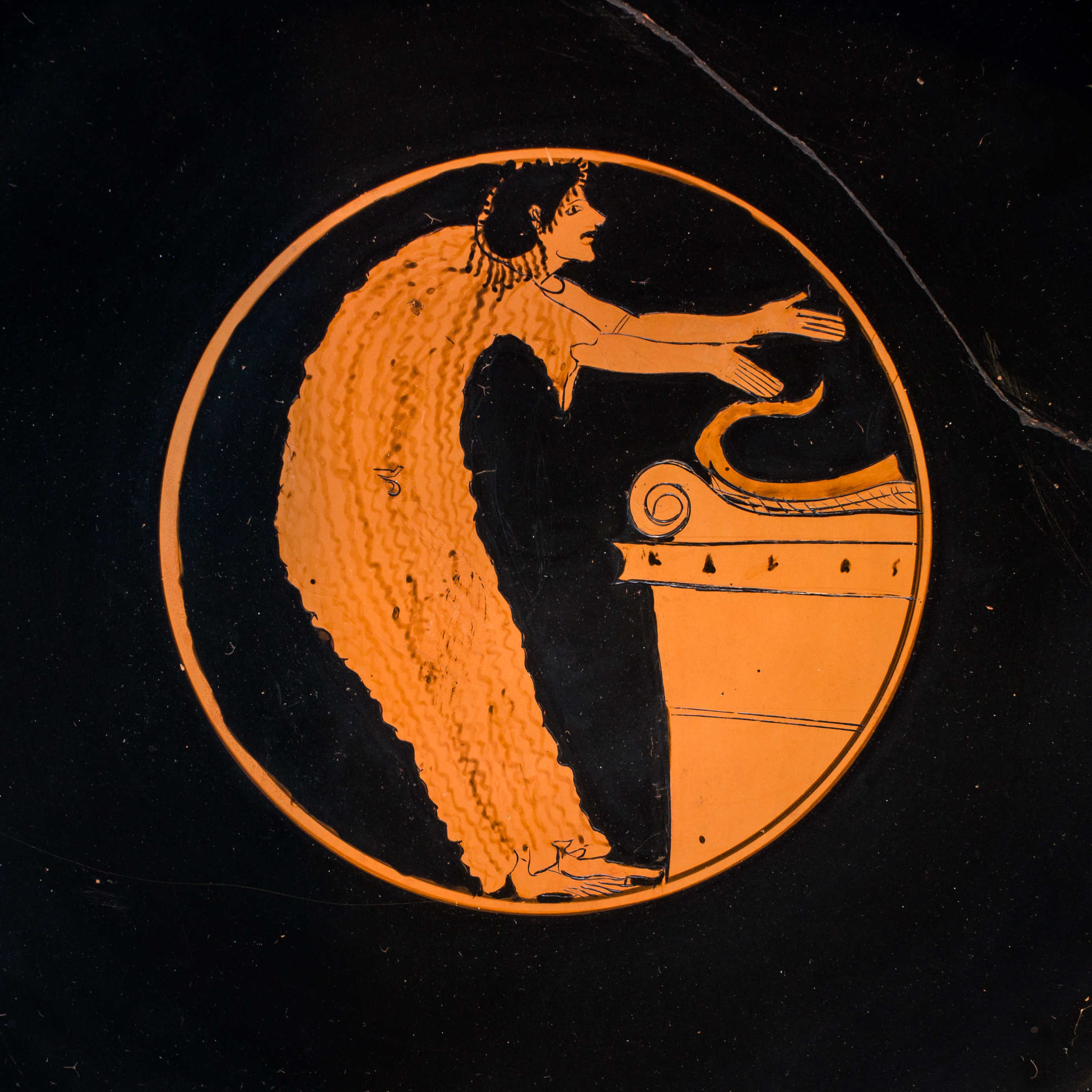 object type / vase shape: attic red figure cup type B (kylix) - description interior: young man in long female dress offering the tail of an animal on an altar (inscription: KALOS), perhaps a scene from the Athenian festival of Oschophoria - exterior side A: 2 young hoplites fighting - side B: 3 young hoplites running - production place: Athens - potter: Pamphaios - painter: circle of the Nikosthenes Painter - period / date: late archaic, ca. 510 BC - material: pottery (clay) - height: 10,9 cm; diameter: 31,6 cm - findspot: Vulci - museum / inventory number: München, Staatliche Antikensammlungen 2610 - Please note: The above museum permits photography of its exhibits for private, educational, scientific, non-commercial purposes. If you intend to use the photo for any commercial aim, please contact the museum and ask for permission.